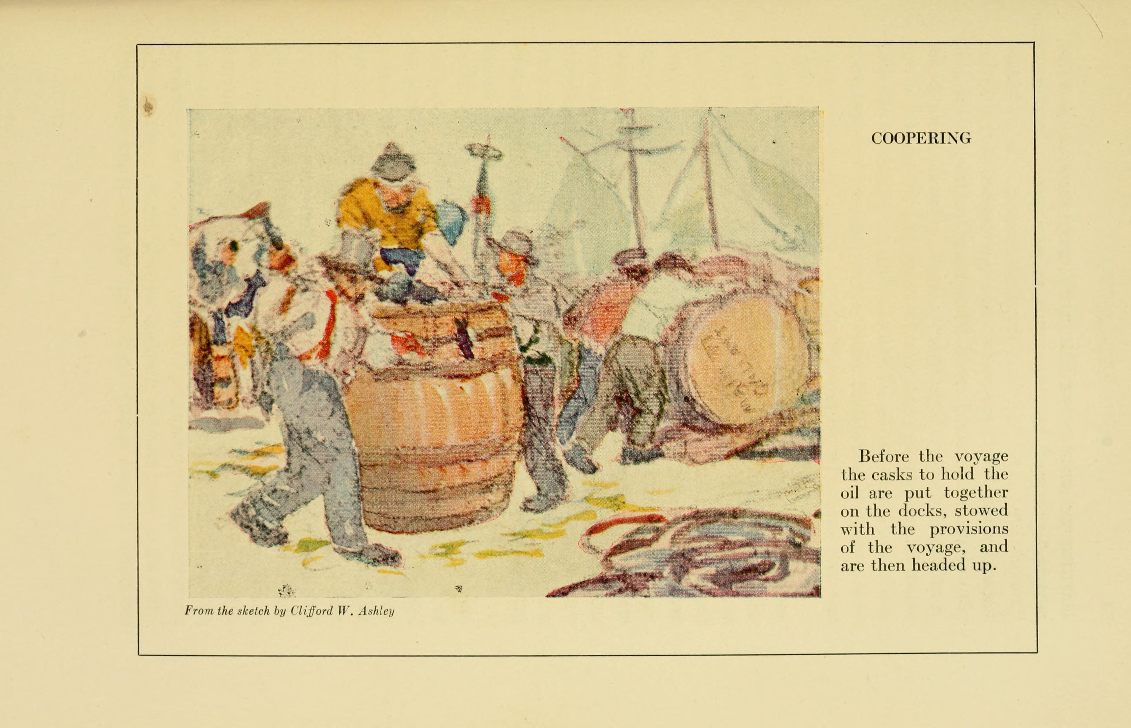 Coopering : Before the voyage the casks to hold the oil are put together on the docks, stowed with the provisions of the voyage, and are then headed up . Subject: Whaling, Whaling--Equipment and supplies, Coopers and cooperage Tag: Aquatic Mammals